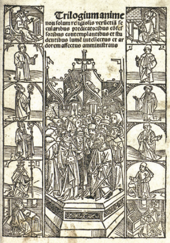 Ludovicus Prutenus OFM. Trilogium animae. title page